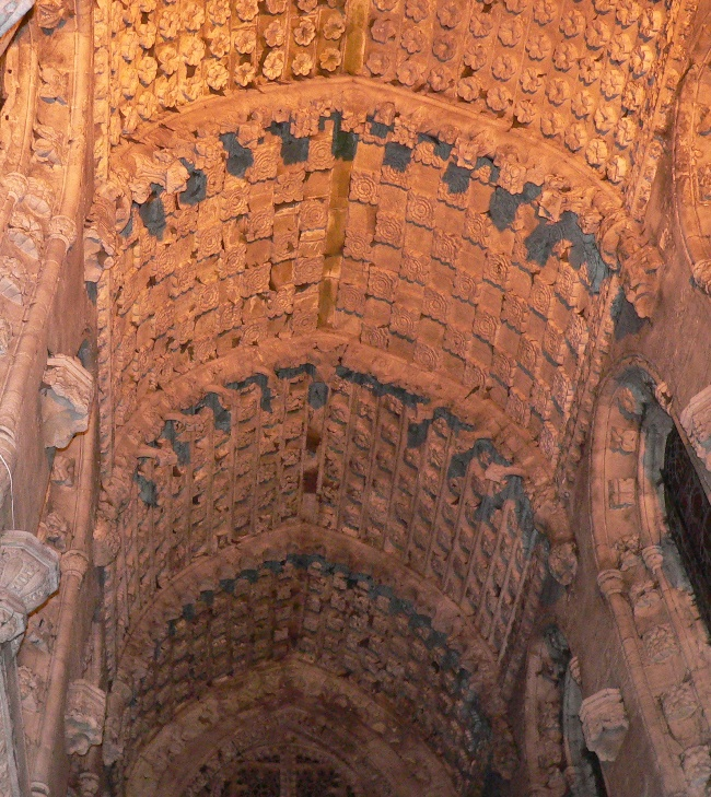 Rosslyn Chapel, Midlothian, Scotland - ceiling